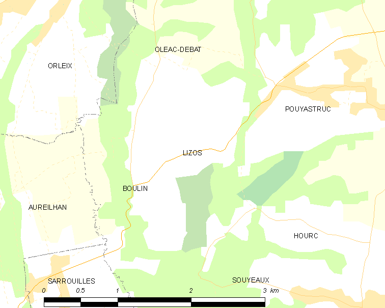 Map of French municipality